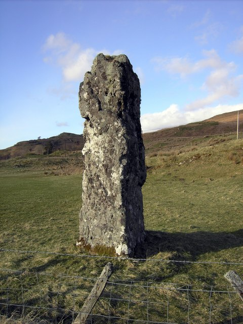 Strontoiller Standing Stone or Diarmaids Pillar A granite monolith 3.8m high and 4m in girth. It is also traditionally called Diarmaids Pillar, after the mythical Irish hero, who is said to have hunted wild boar in this area.